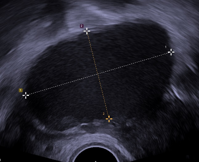 Vaginal ultrasonography at the right ovary of a 41 year old woman with endometriosis as confirmed by laparoscopy. It shows a 67 x 40 mm "endometrioma" as distinguished from other types of ovarian cysts by a somewhat grainy and not completely anechoic content.